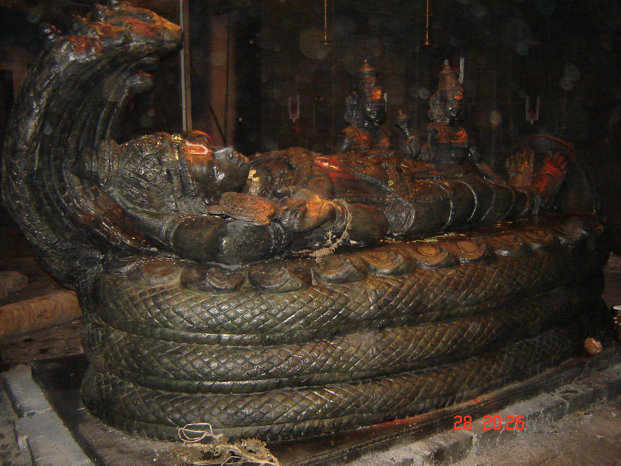 we can see the refences where lord vishnu lies on the Shesha snake and accompanied by his two wives.